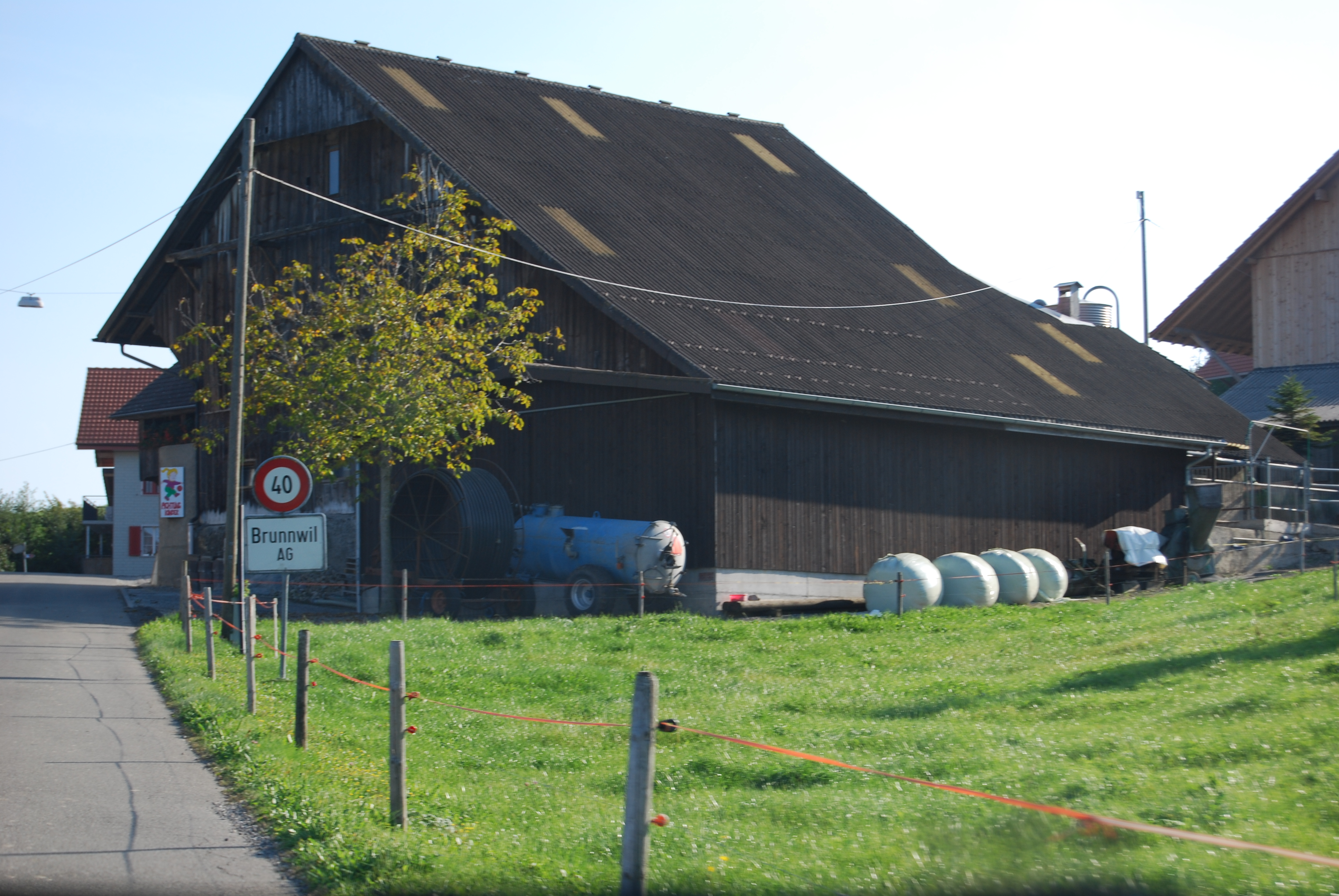 Brunnwil, municipality of Beinwil, canton of Aargau, SwitzerlandEsperanto: Brunnwil, komunumo Beinwil, Kantono Argovio, Svislando